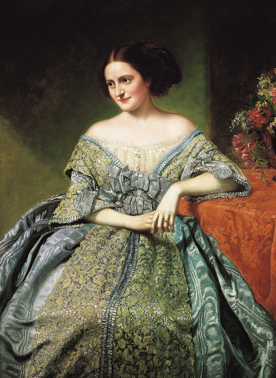 Portrait ofSally Ward Lawrence Hunt Armstrong Downs(1827-1896)